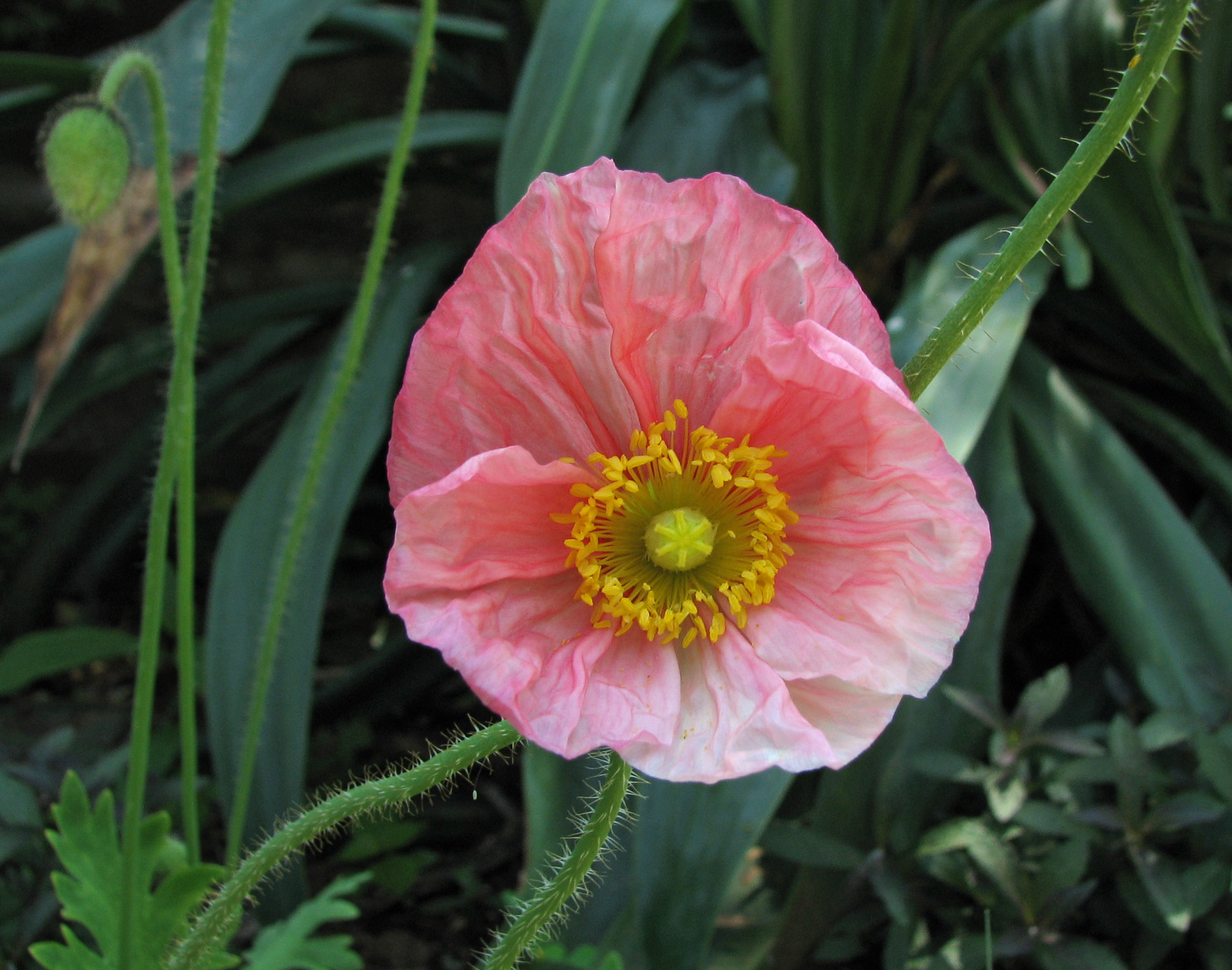 Picture of an unidentified pink Poppyen (Papaver en ) flower. Photo taken in the the Tennis Court Garden at the Chanticleer Garden.